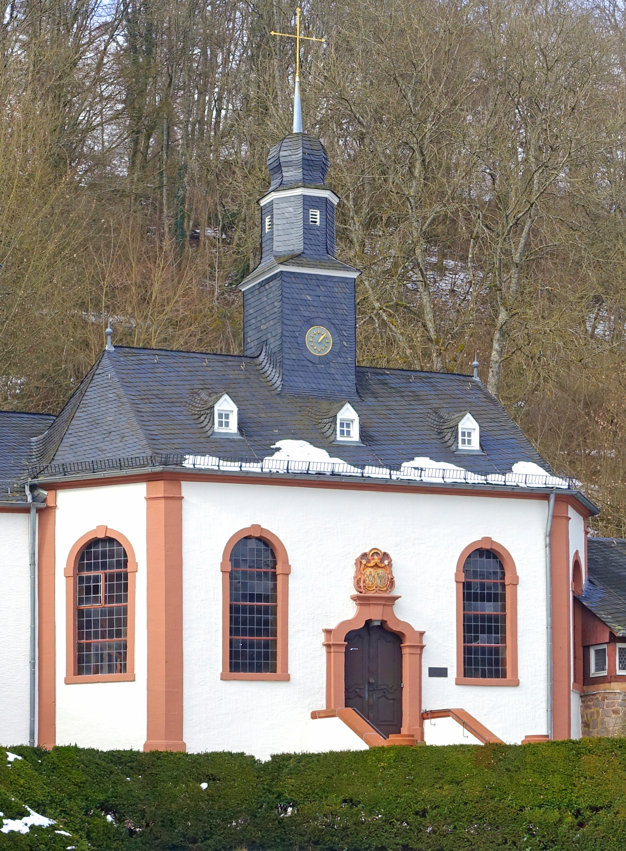 Schloss Dagstuhl, Saarland, Germany. All artwork is old enough so that it is in the public domain.